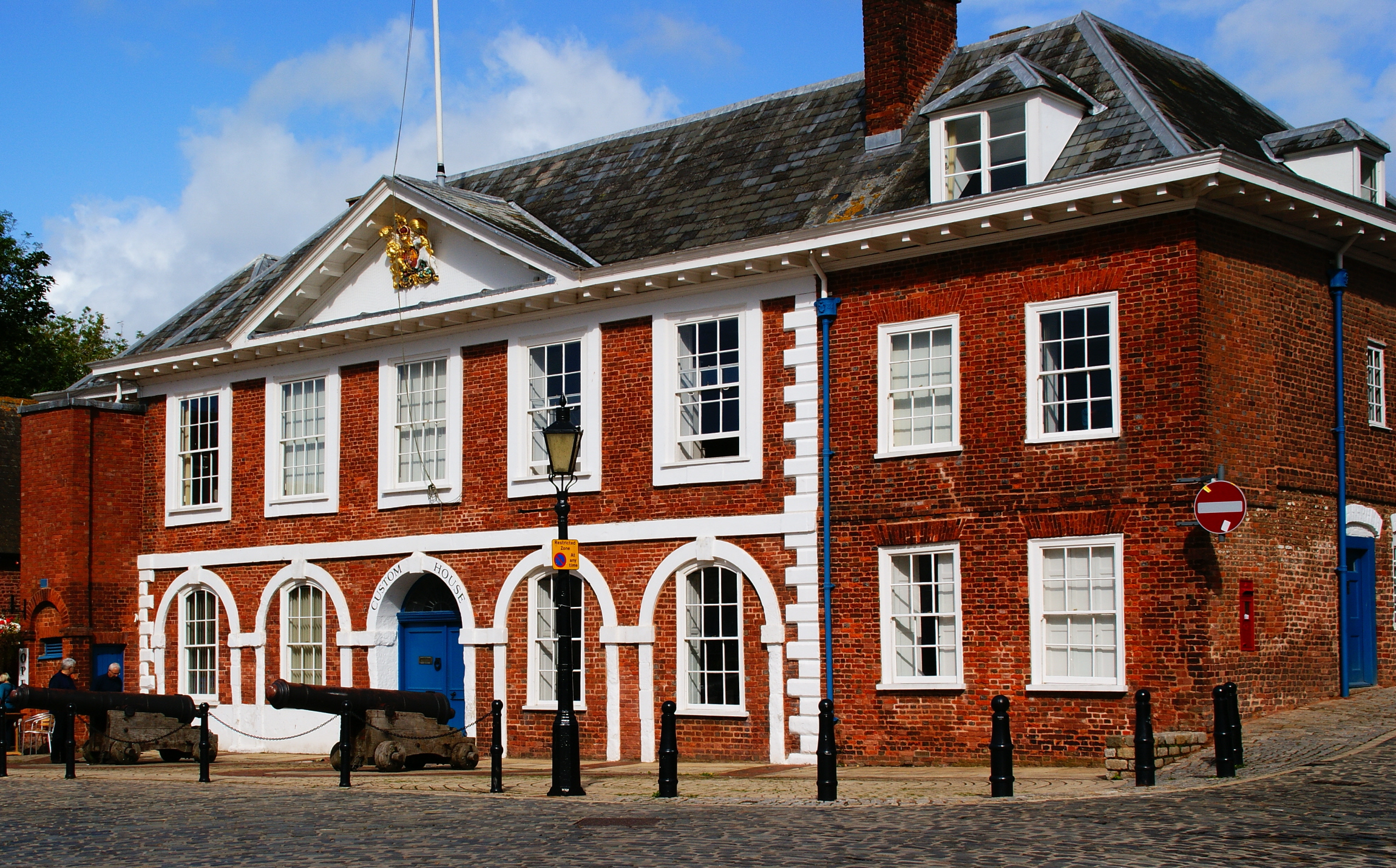 Old Customs House at Exeter docks. Built in 1681 & the oldest surviving purpose built customs house in Britain. It is a Grade one listed building.